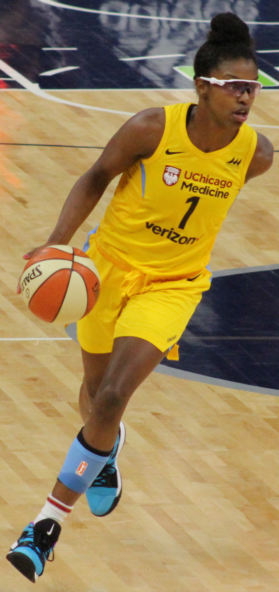 Diamond DeShields of the Chicago Sky